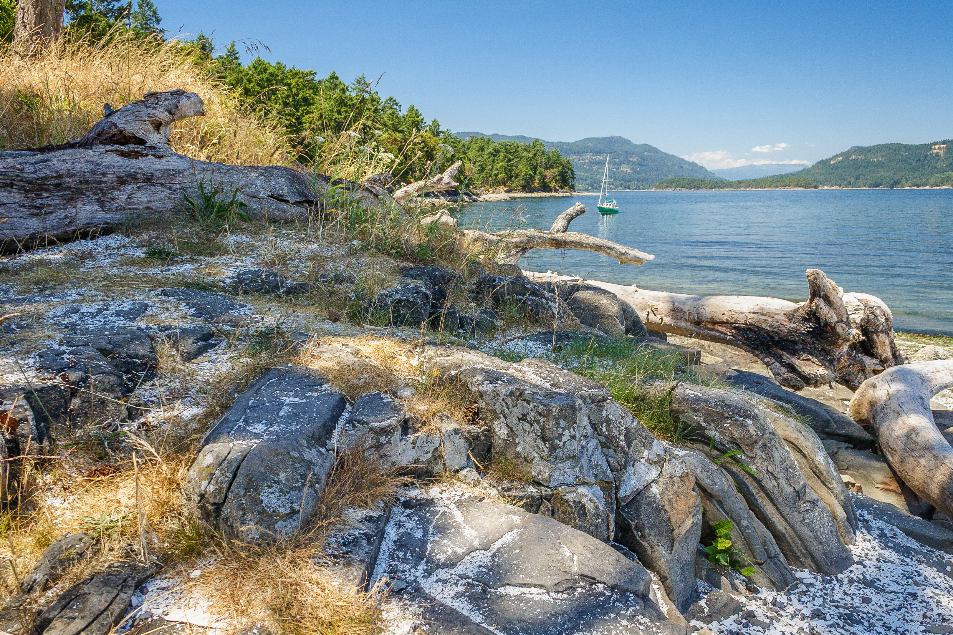 Portland Island is also known as Princess Margaret Island. It is located in the southern Gulf Islands, adjacent to Haro Strait. This photo was taken in a protected area in Canada, Wikidata item Gulf Islands National Park Reserve (Q775595)